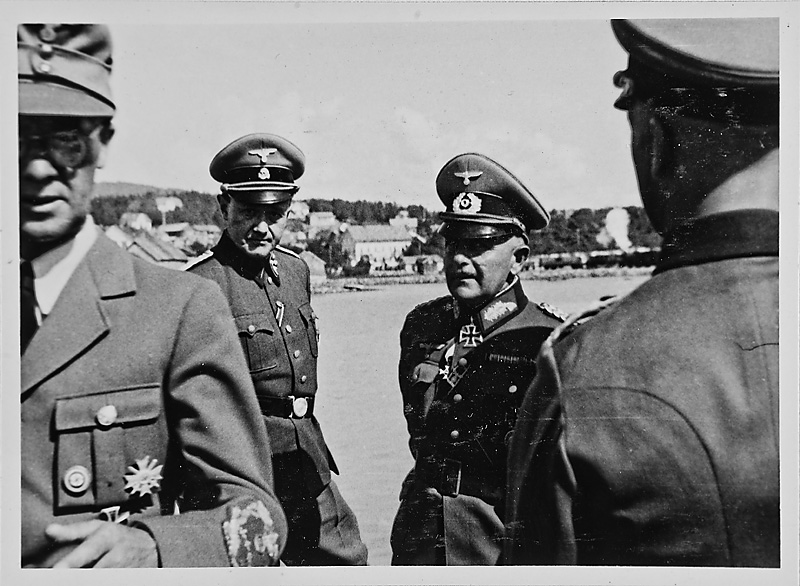 Image from "Photo Album from Terboven's journey to Nothern Norway and Finland 10–27 July 1942" (Mit dem Reichskommissar nach Nordnorwegen und Finnland 10. bis 27. Juli 1942), 375 images uploaded to www. by Riksarkivet (National Archives of Norway) 2012. See scanned album here